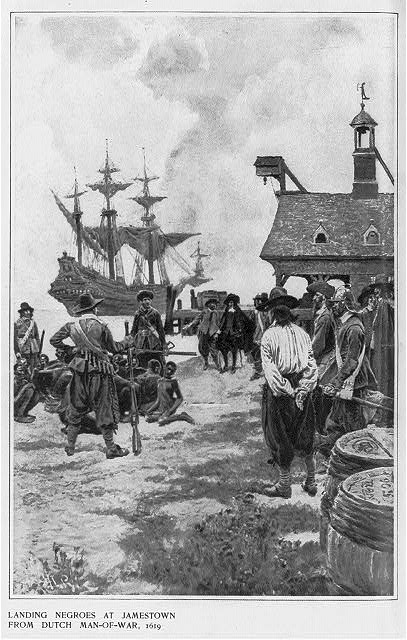 Illustration titled "Landing Negroes at Jamestown from Dutch man-of-war, 1619"; signed H. Pyle in lower left hand corner